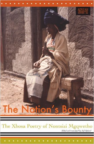 The Nation’s Bounty:The Xhosa Poetry of Nontsizi Mgqwetho by Professor of African Languages and Literature­s Jeff Opland published in 2007.